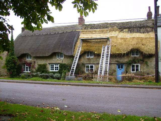 Rethatching a cottage in Yardley Gobion. I was amazed by the number of thatched houses and cottages in villages to the west of Milton Keynes.